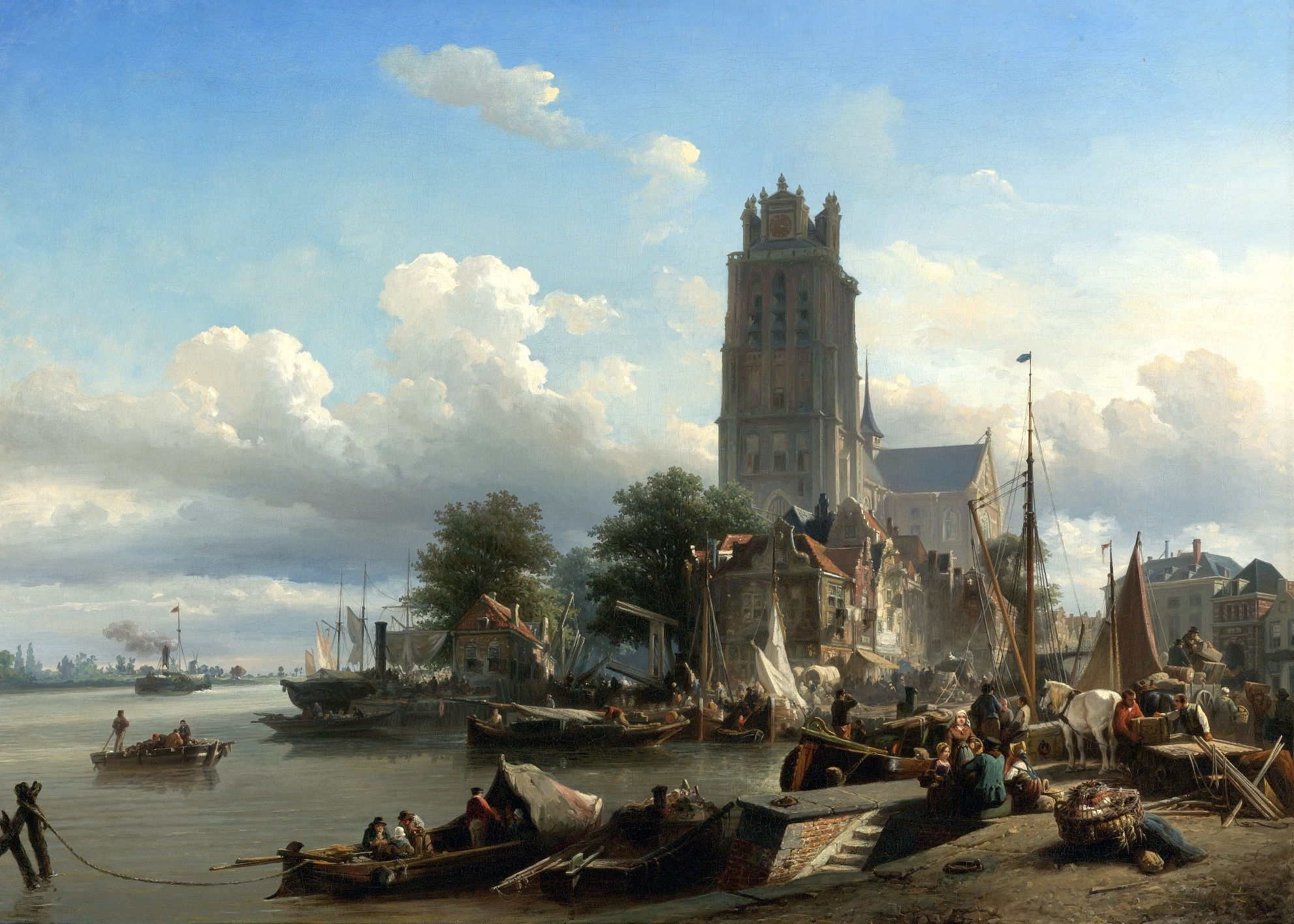 Drukke haven met lossende kooplieden